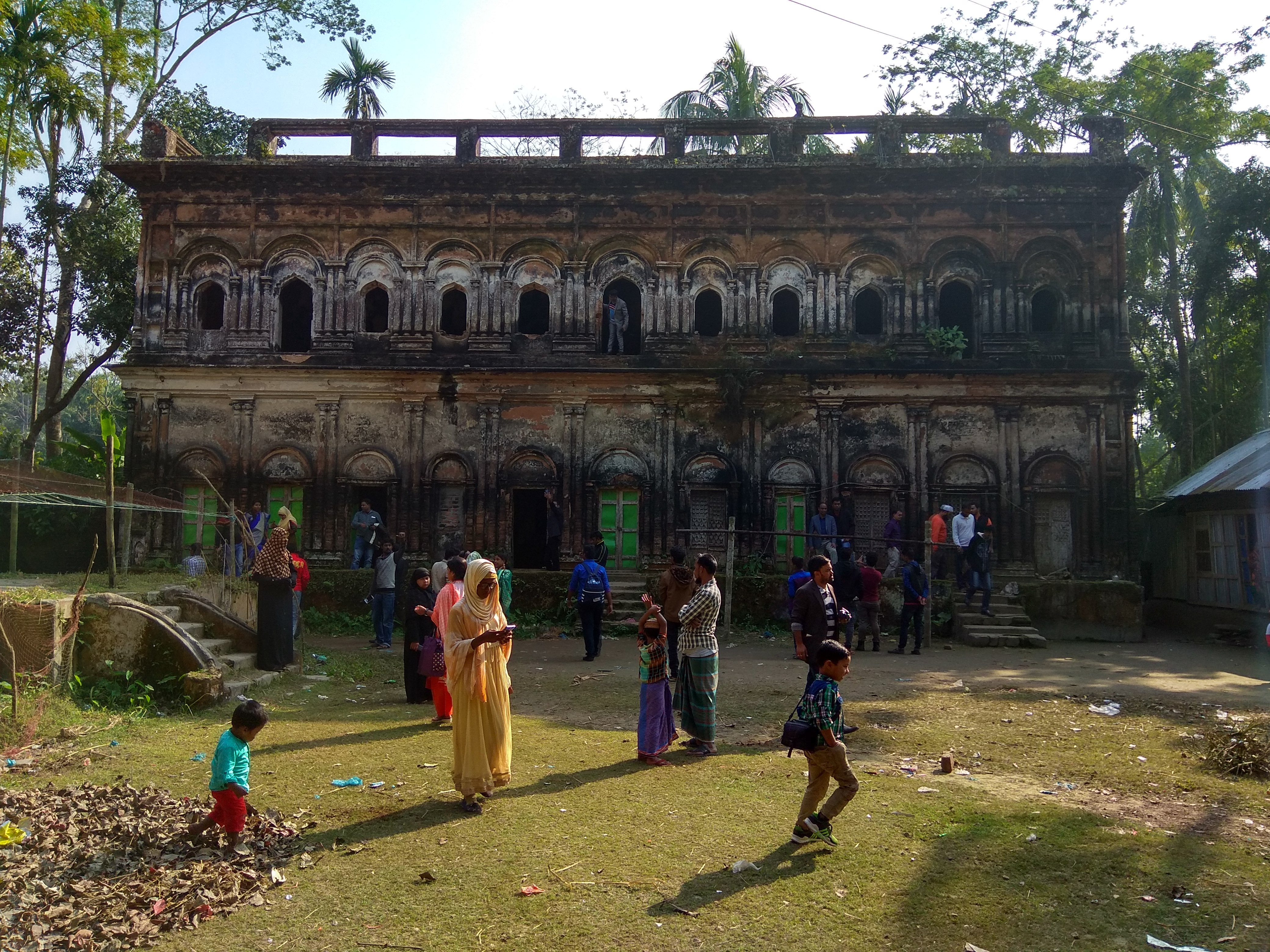 Ulania Zamindar Bari is a centuries-old landlord palace located in Mehendiganj Upazila, Barisal, Bangladesh. Mughal rulers sent Hanif Khan, a commander of their armed forces, to the area to repel the attack of pirates from Arakan. He became a permanent resident of Ulania, and his ancestors became wealthy zamindar. Present days, the palace has become a tourist attraction of Ulania, where people come to visit the relics.